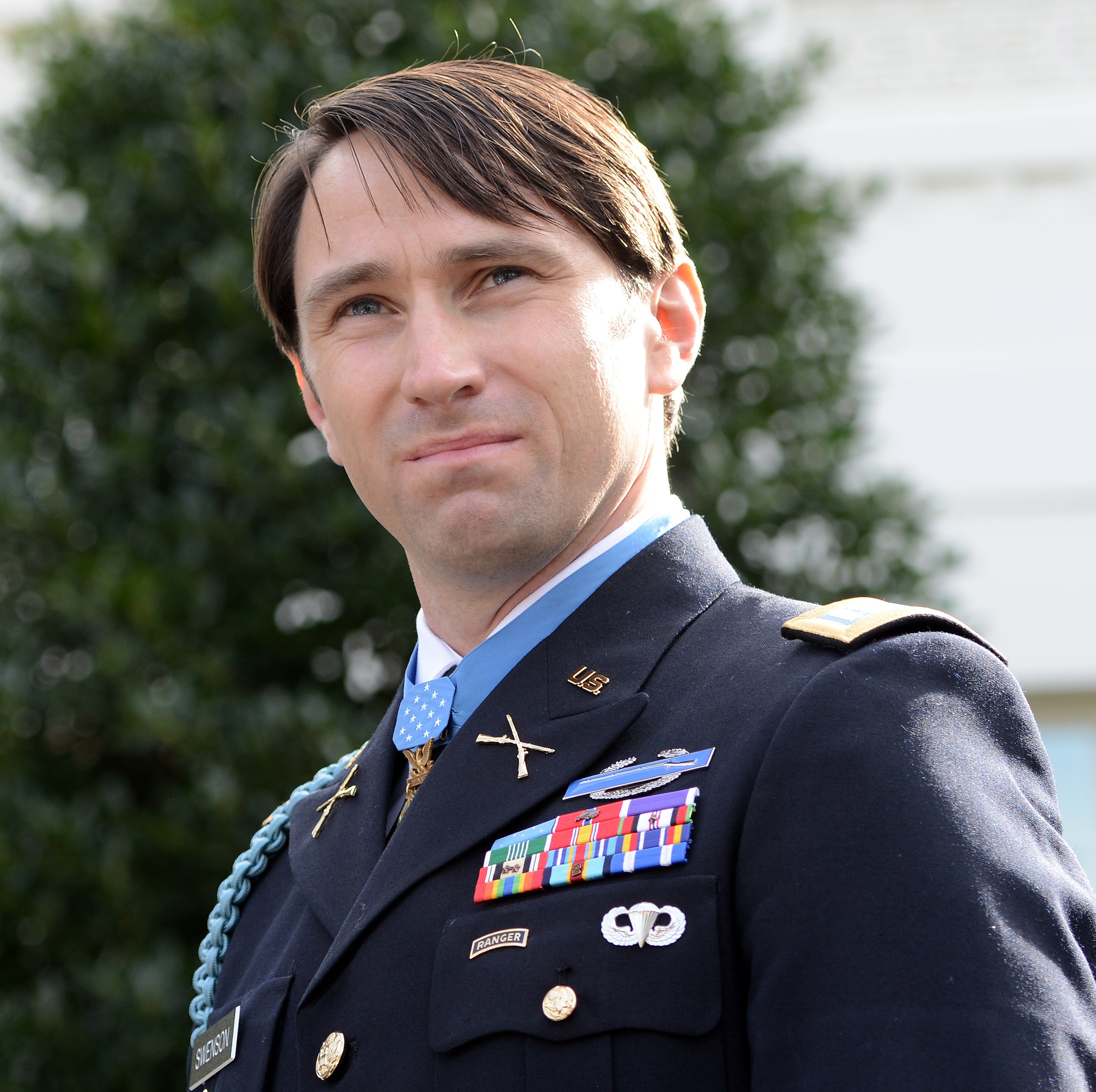 From original source: "Former Army captain receives Medal of Honor at White House Former Army Capt. William D. Swenson speaks to reporters at the White House after receiving the Medal of Honor, Oct. 15, 2013."